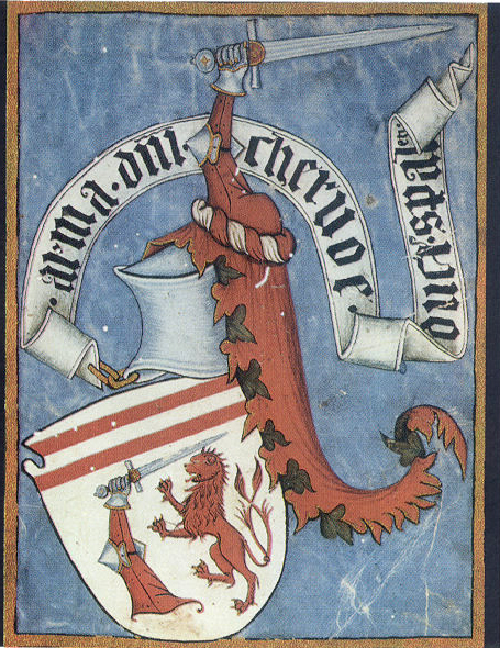 Illumination from manusript of Hrvoje Vukčić Hrvatinić, Split, 1404.